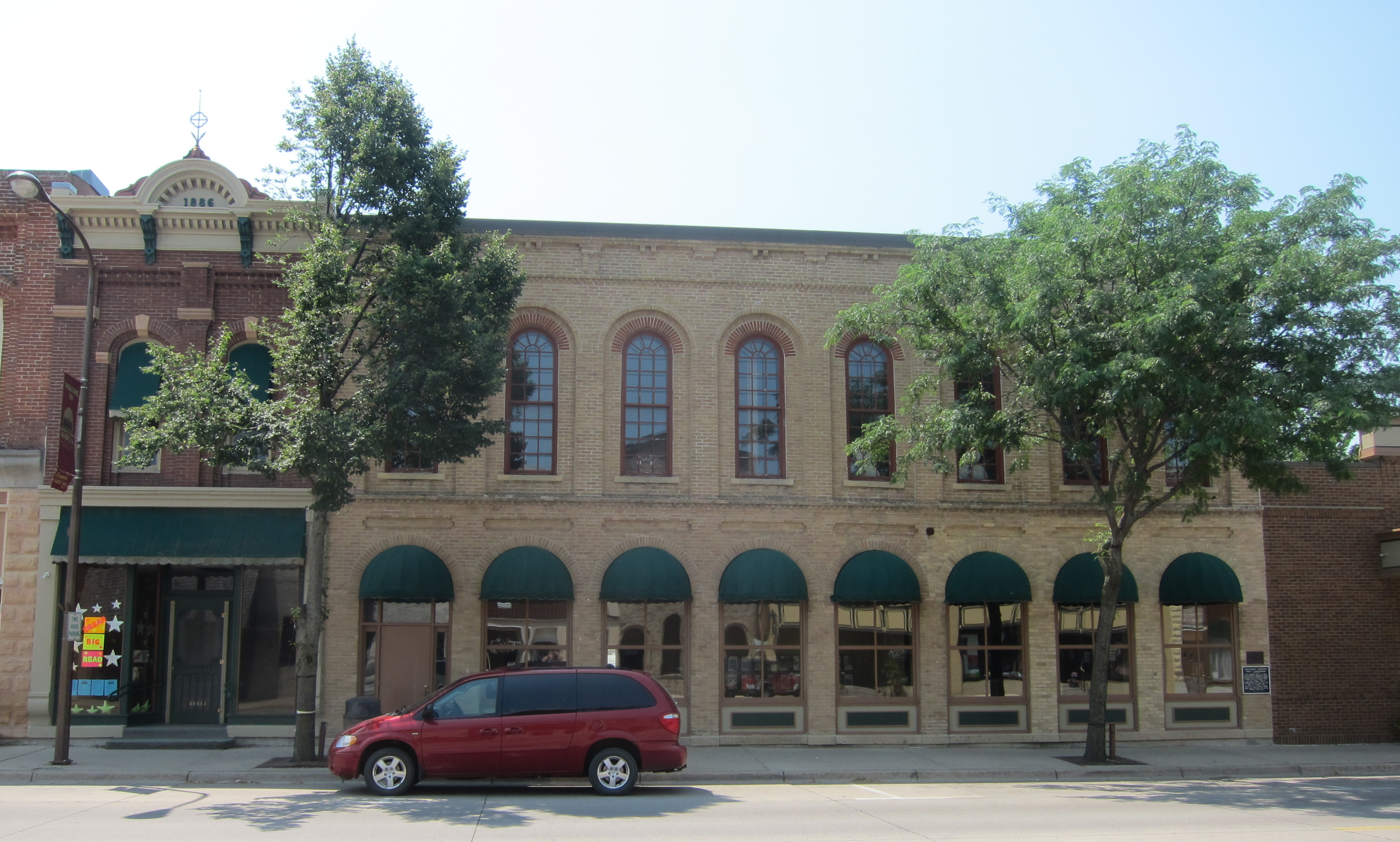 Flanders' Block in Madelia, Minnesota, listed on the National Register of Historic Places.